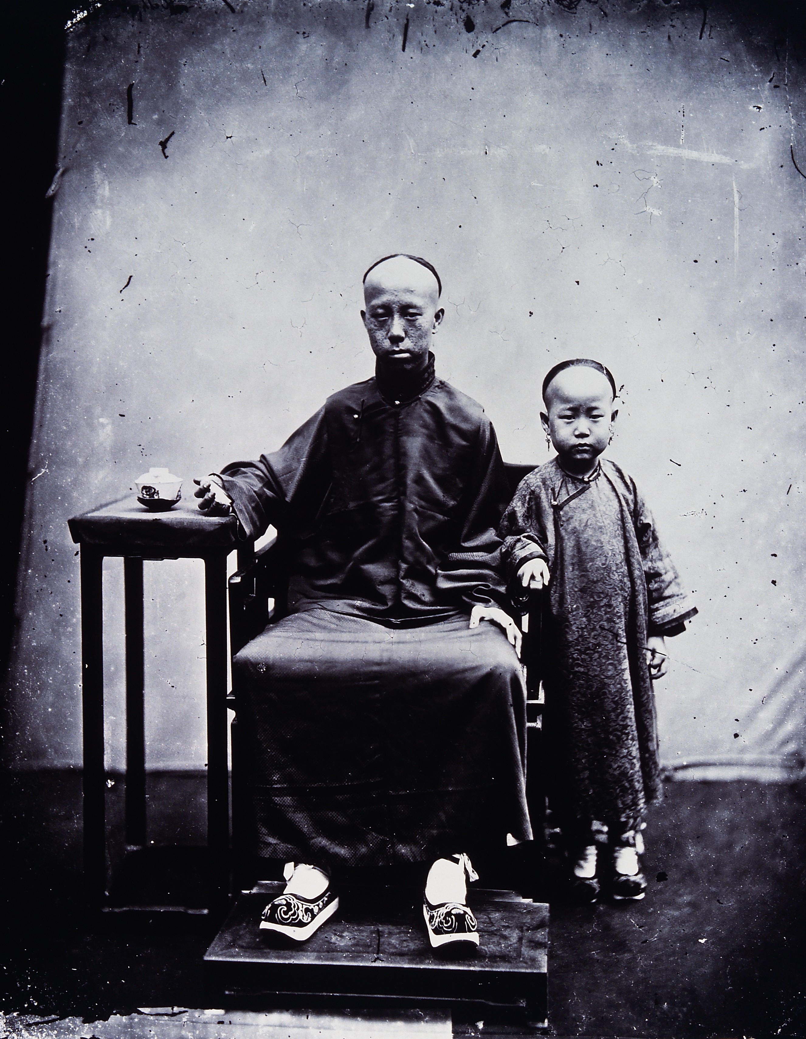 A mandarin and his son, Canton, Kwangtung province, China. Iconographic Collections Keywords: J. Thomson; China; Portraiture; John Thomson